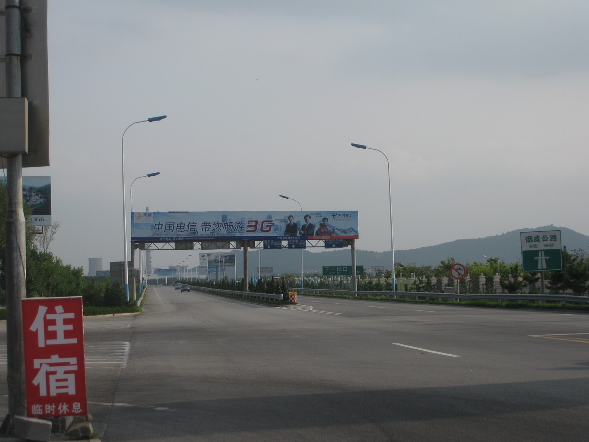 Entrance of Weihai of Weihai-Yantai Expressway in Shandong Province, China